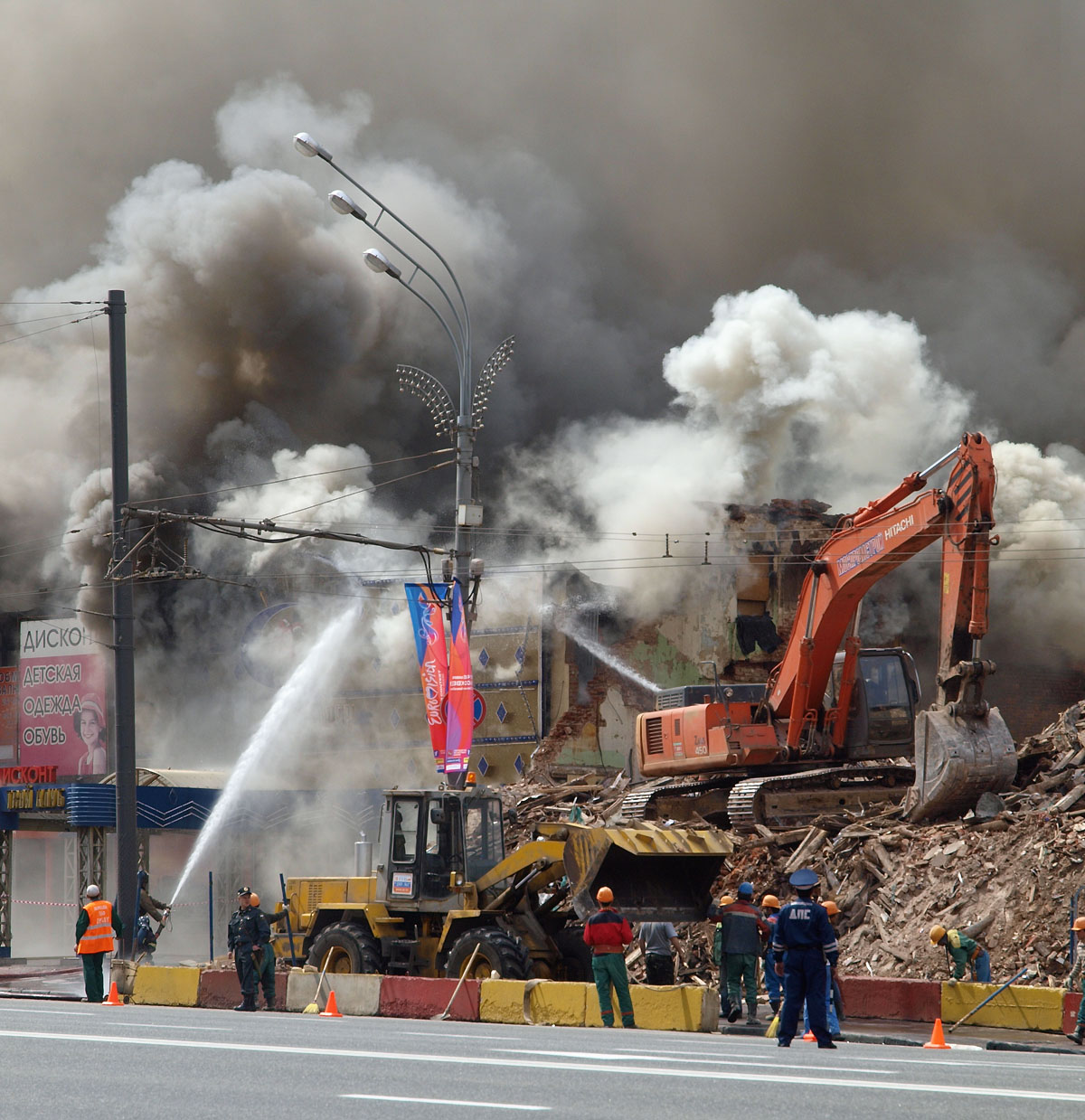 12:20, May 11, 2009, Moscow. A fire broke out at a two-story, 150-year-old building at Smolenskaya Square housing a gambling outfit. Heavy firefighting machines arrived on site at 12:30; open flames were suppressed by 13:20 and the fire was declared completely over at 16:37. See annotated gallery at Smolenskaya Square (Moscow) fire of May 11, 2009